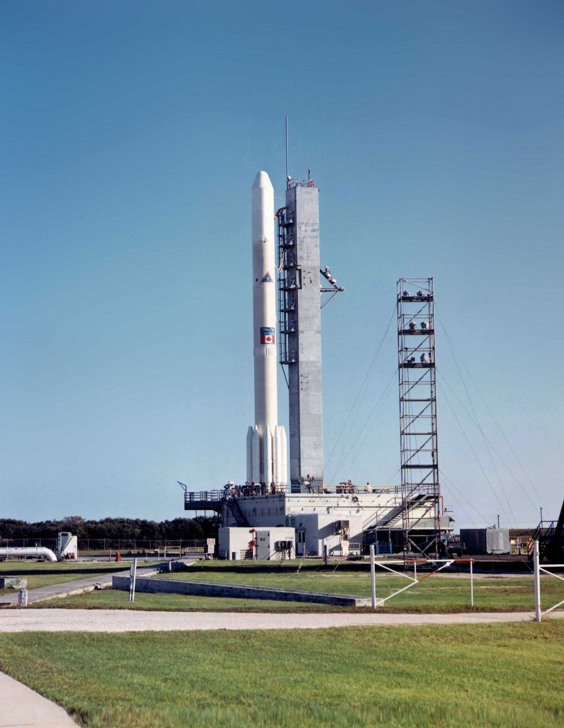 Delta 1914 with Anik satellite, Cape Canaveral, November 1972 original image caption: TELESAT SPACECRAFT SITTING ON LAUNCH COMPLEX 17B AWAITING LAUNCH BY A DELTA LAUNCH VEHICLE